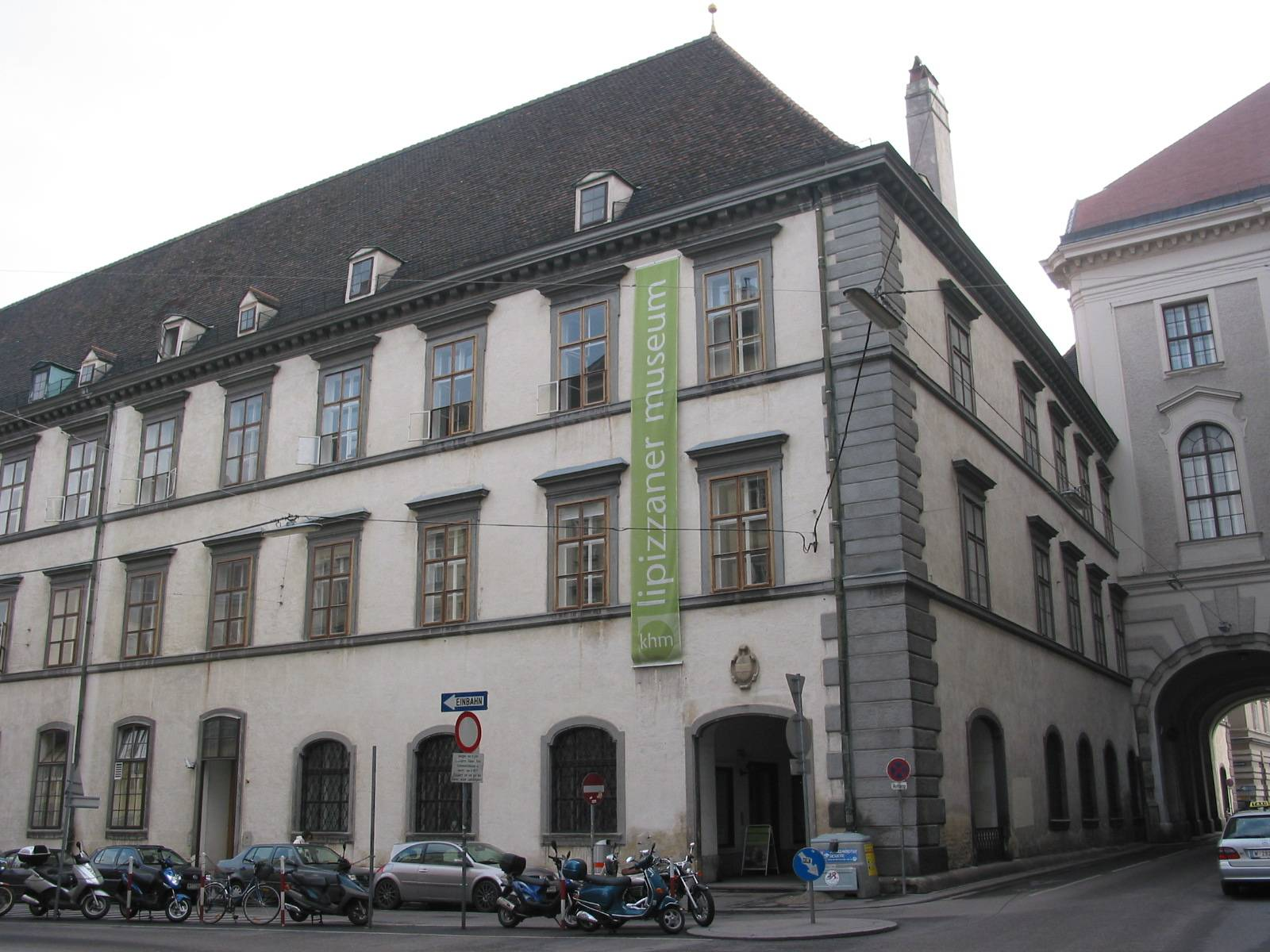 Stallburg, Teil der Hofburg en: Stallburg, part of the Hofburg